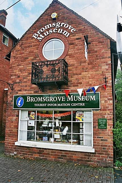 Bromsgrove Museum and Tourist Information Centre, Bromsgrove, Worcestershire, England. Photo taken 2004-10-28; sharpened by me before uploading. (As at July 2012, this museum is closed and, from the state of the building, has been for some time.)